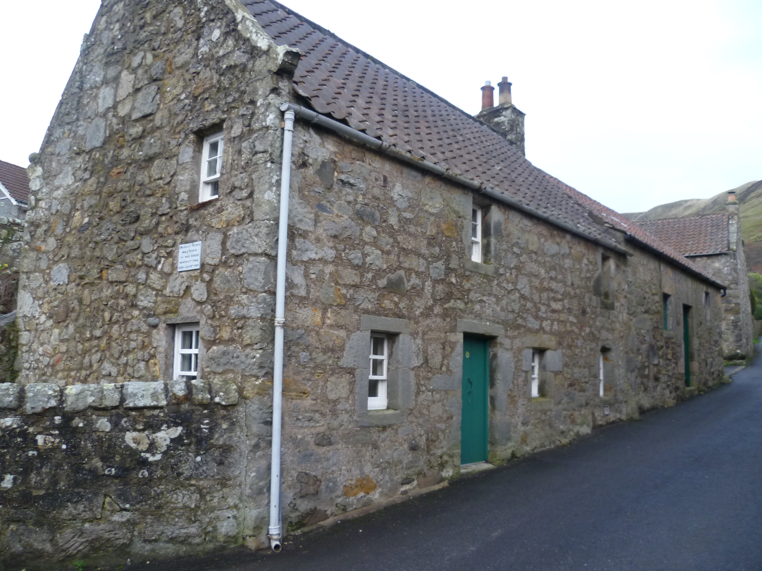 Birthplace and home of Michael Bruce, the 'gentle poet' of Loch Leven, who died of consumption in 1767 at the tragically young age of 21. His best known poem is 'Ode To The Cuckoo'. The weaver's cottage in which he was born is now a museum.